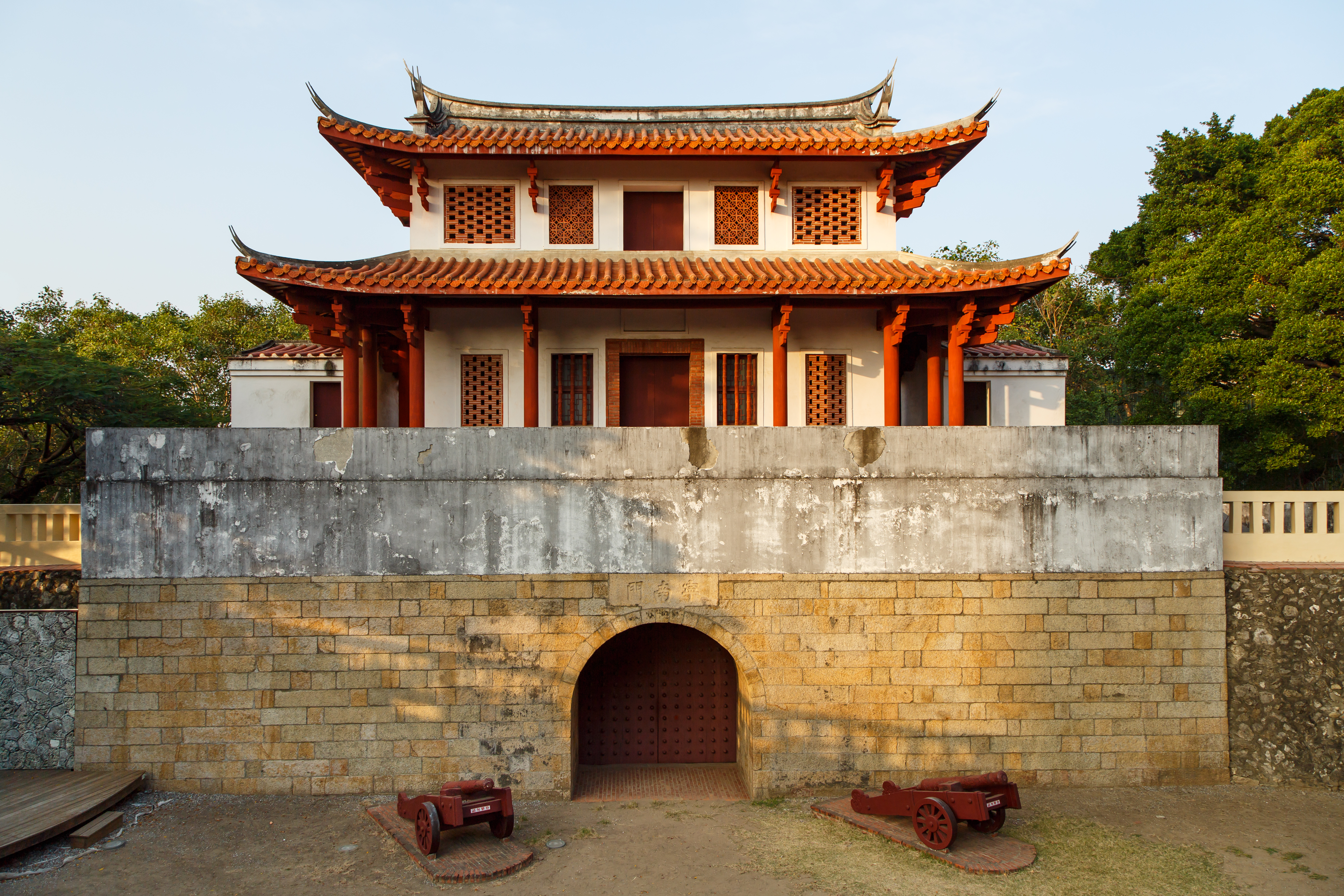 Tainan, Taiwan: Gatehouse of the Great South Gate, Tainan